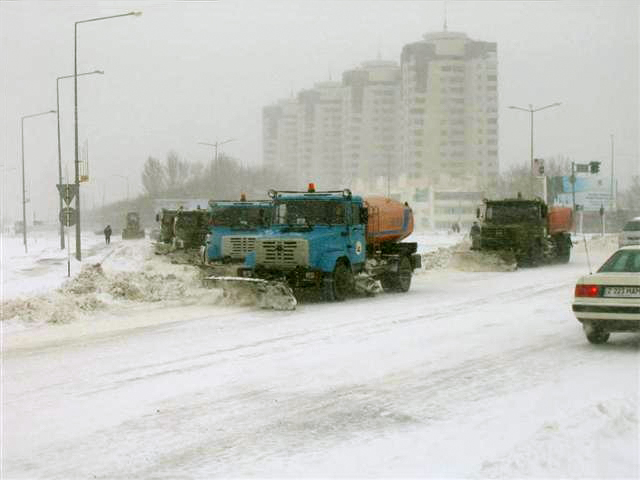 Aktay City Kazakhstan